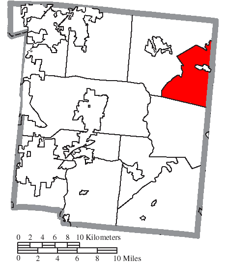 Map of the municipal and township boundaries of Warren County, Ohio, United States, as of the 2000 census, with the location of Massie Township highlighted. Township borders are shown only in unincorporated areas in order to differentiate incorporated and unincorporated areas more clearly.